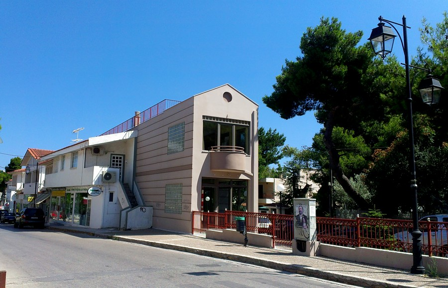 arxitektokiniki